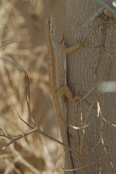 Urosaurus graciosus in Riverside County, California. Aug 2 2006.